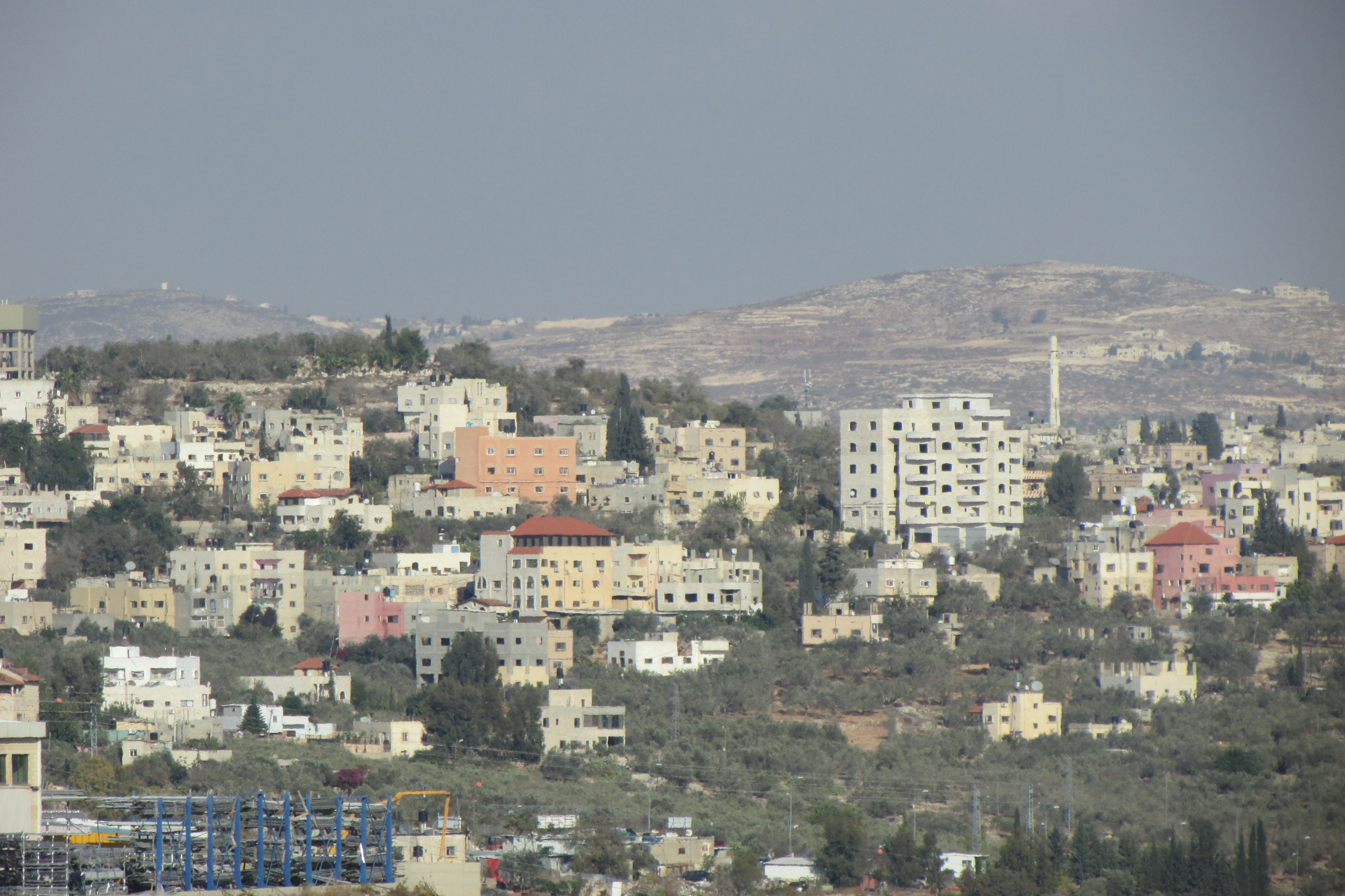 Haris, Salfit from Barkan industrial zone in the south west